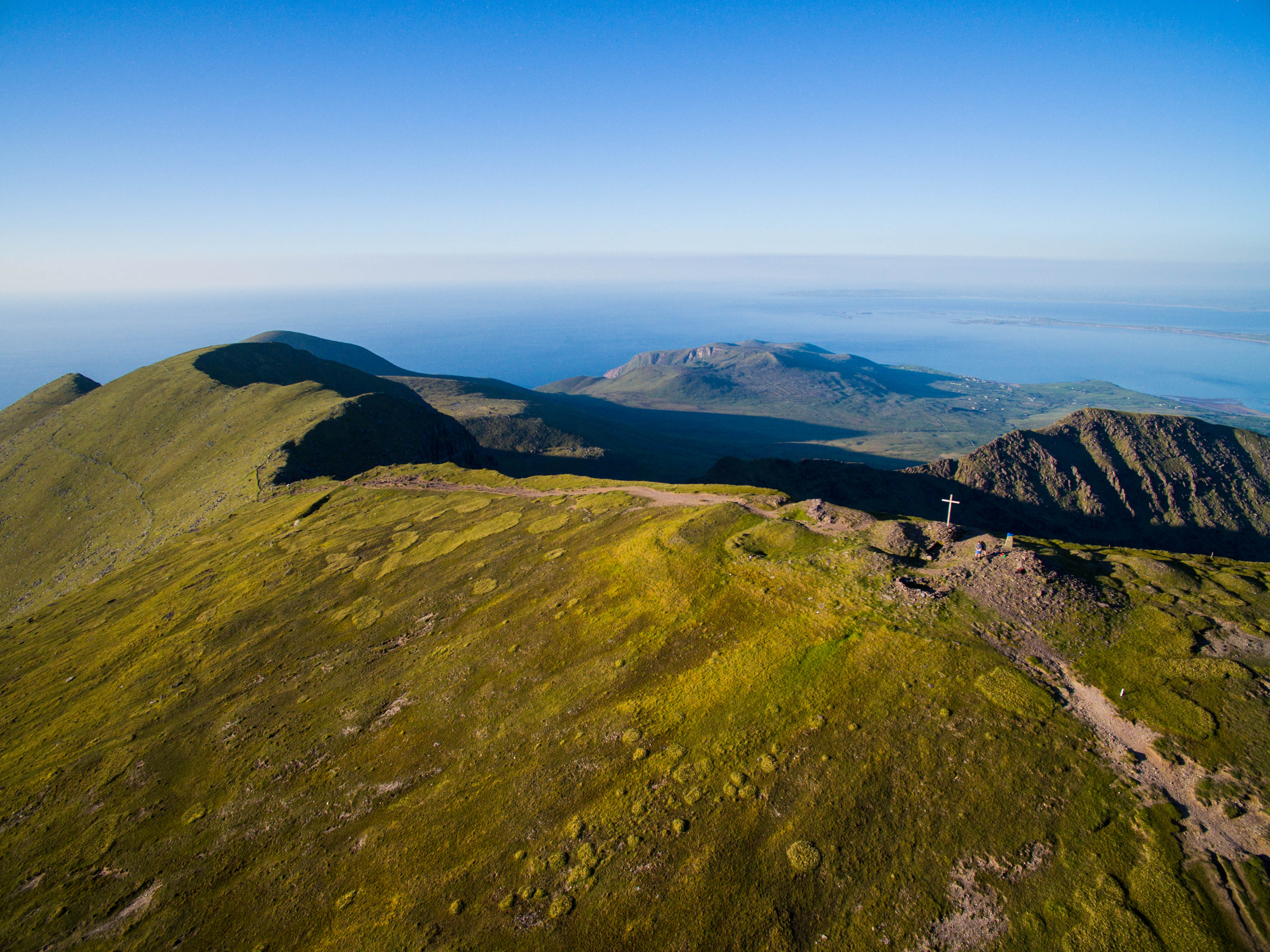 Mount Brandon from just above the summit